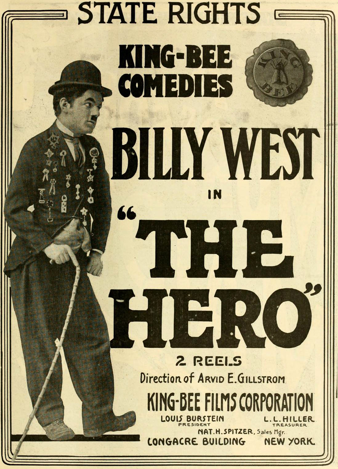 Advertisement in Moving Picture World for the film The Hero (1917).